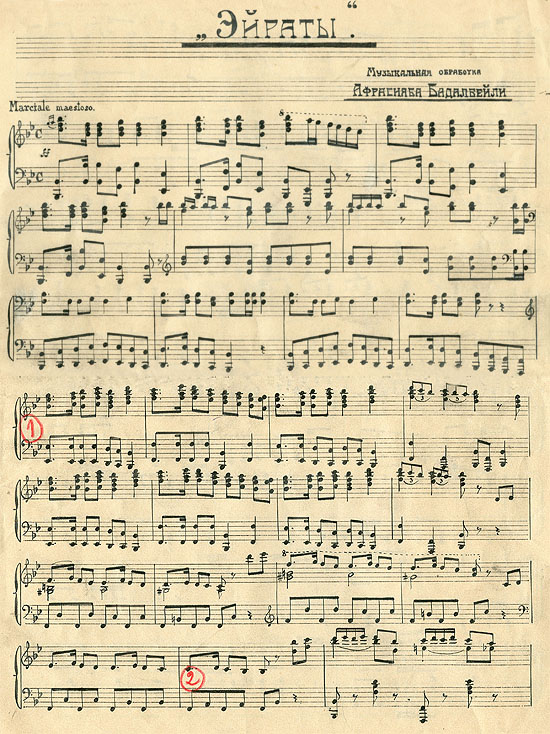 Afrasiyab Badalbeyli. "Eyratı" (mugam)